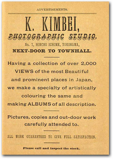 1,700 scenic views in his inventory were organized according to the routes and destinations most favored by globetrotters. The remaining 400 photographs depicted Japanese people. text: K. KIMBEI, PHOTOGRAPHIC STUDIO, No. 7, HONCHO ICHOME, YOKOHAMA, NEXT-DOOR TO TOWNHALL.